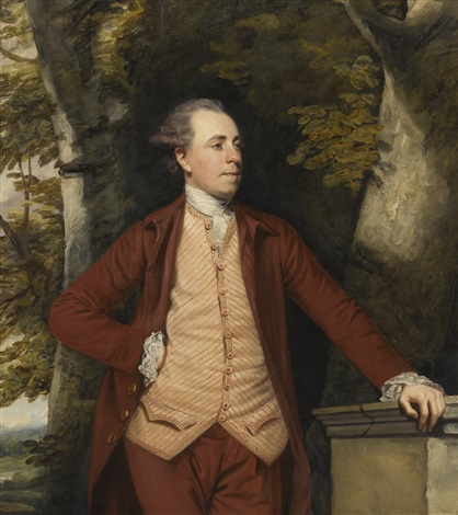 Portrait of Richard Croftes of West Harling, Norfolk (circa 1740-1783)